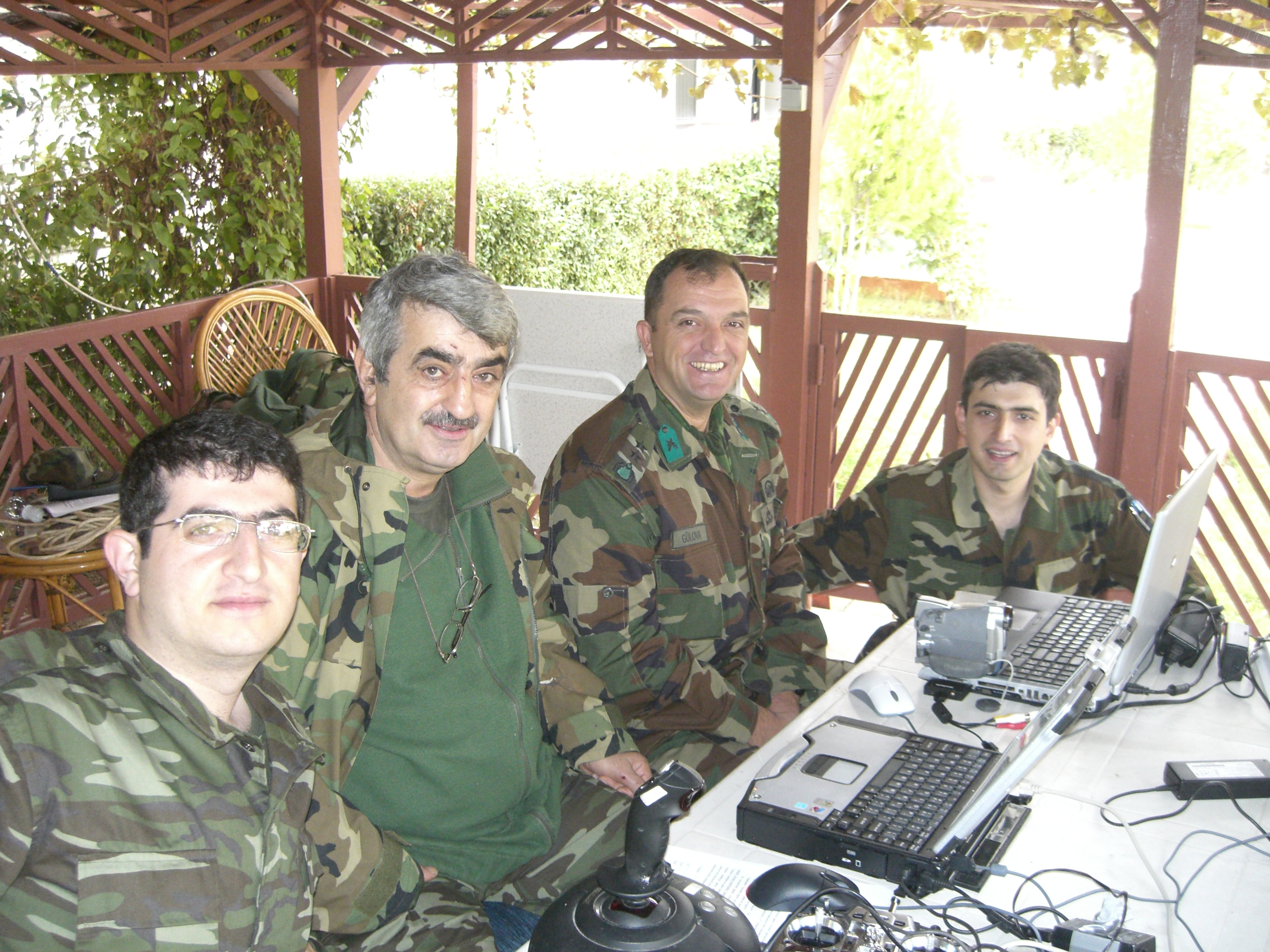 Şehit Yarbay Melih Gülova ile 2006 yılı Kasım ayı içerisinde Şırnak 6. Motorlu Piyade Tugayı Karargahı önünde Malazgirt İHA uçuşları esnasında Yer Kontrol Birimi önünde çekilmiştir.